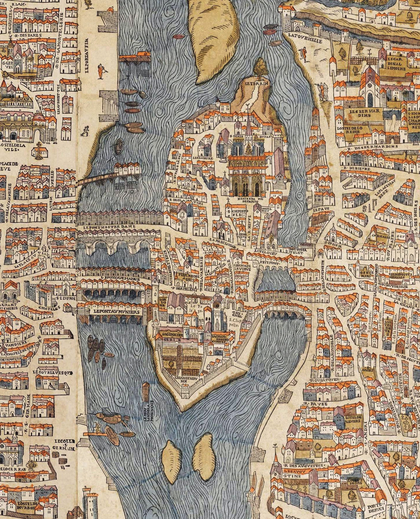 Île de la Cité, Île aux Juifs & Îlot de la Gourdaine ca. 1550.